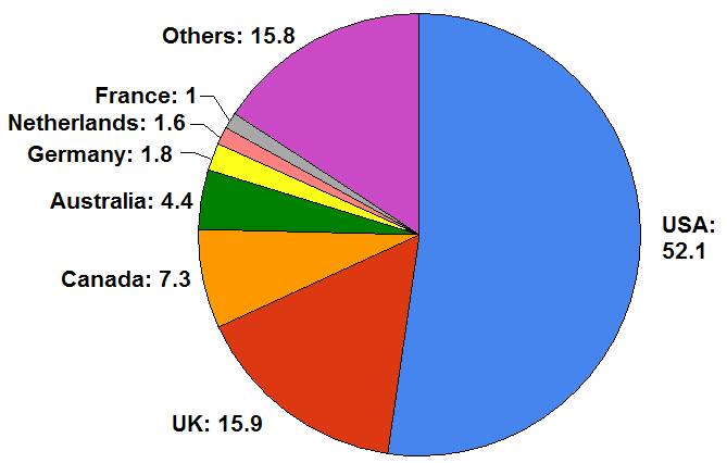 English Wikipedia contributors by country